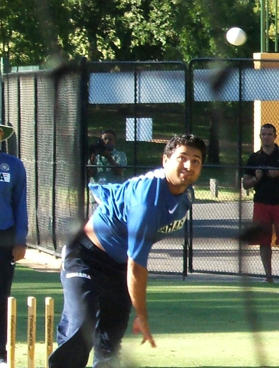 Piyush Chawla fielding at Adelaide Oval